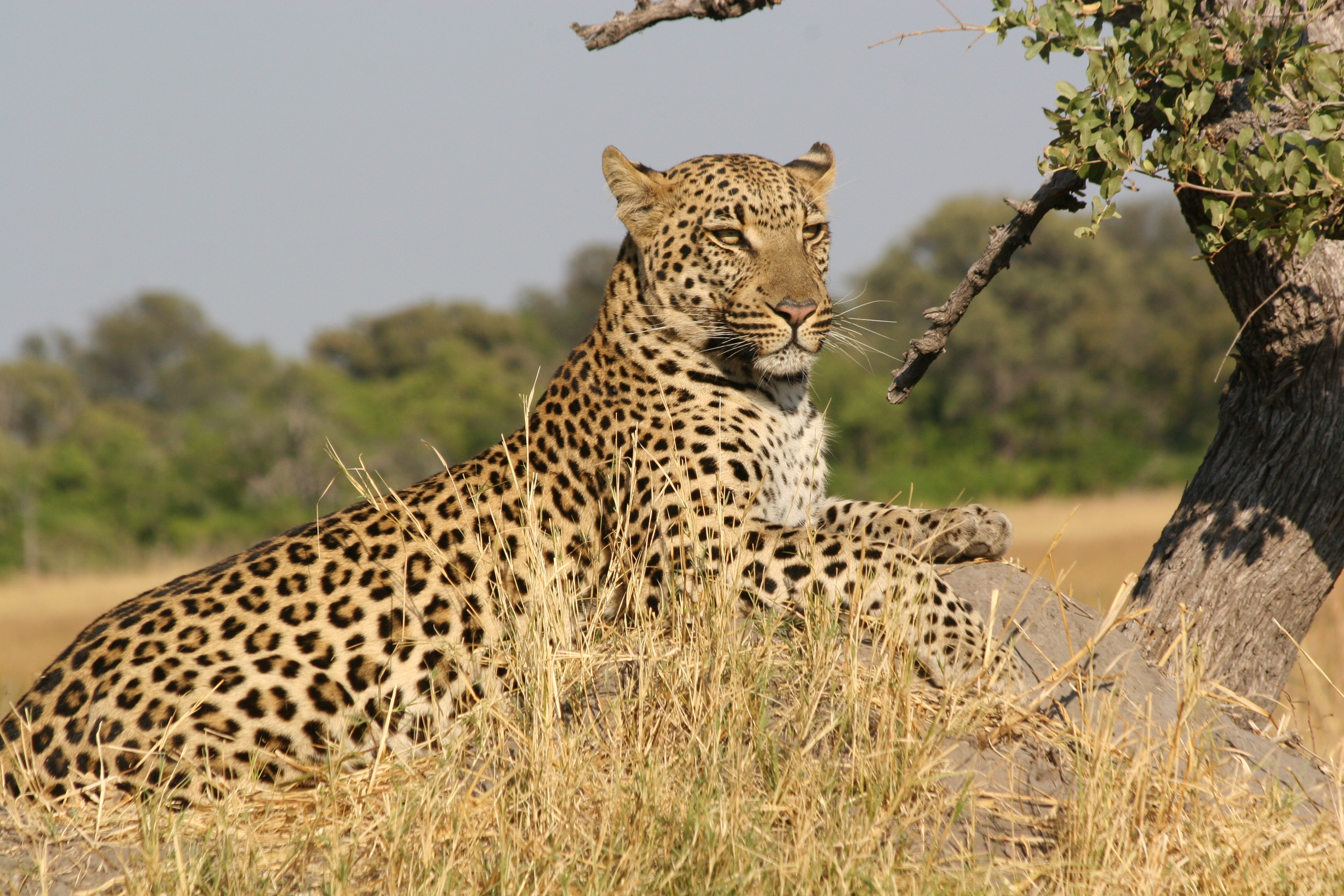 African leopard at the Moremi Game Reserve, Botswana